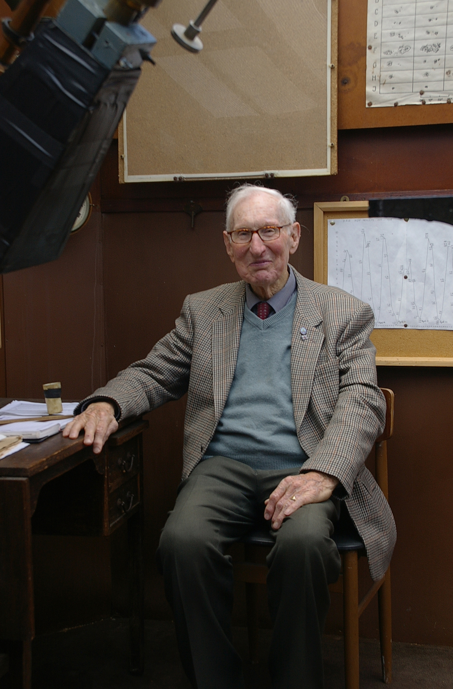 Norman Rogers in his observatory.